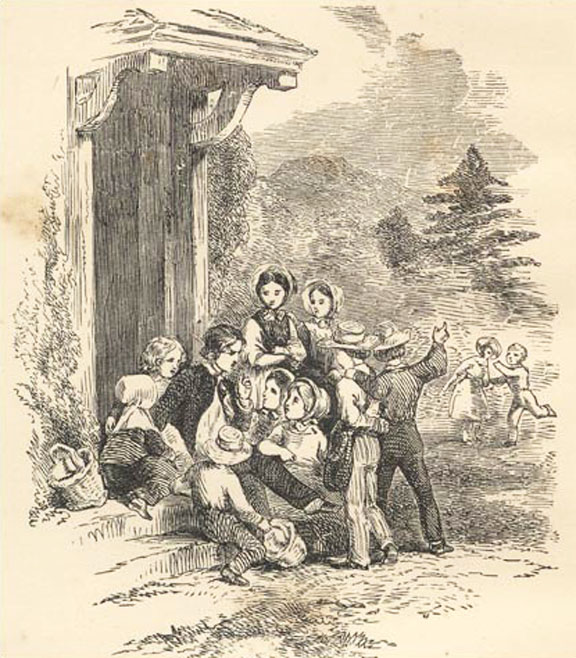 Frontispiece illustration to A Wonder-Book by Nathaniel Hawthorne. The scene depicted is from the "frame story" of the book, wherein Eustace Bright entertains several children by telling them stories and myths. From an edition published in 1880 by Houghton, Osgood and Co., The Riverside Press, Cambridge, 1876. This "Illustrated Library Edition" of the book includes Hawthorne's Grandfather's Chair as well. Full digital edition.